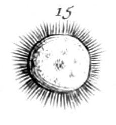 The first depiction of a heliozoan by Louis Joblot.